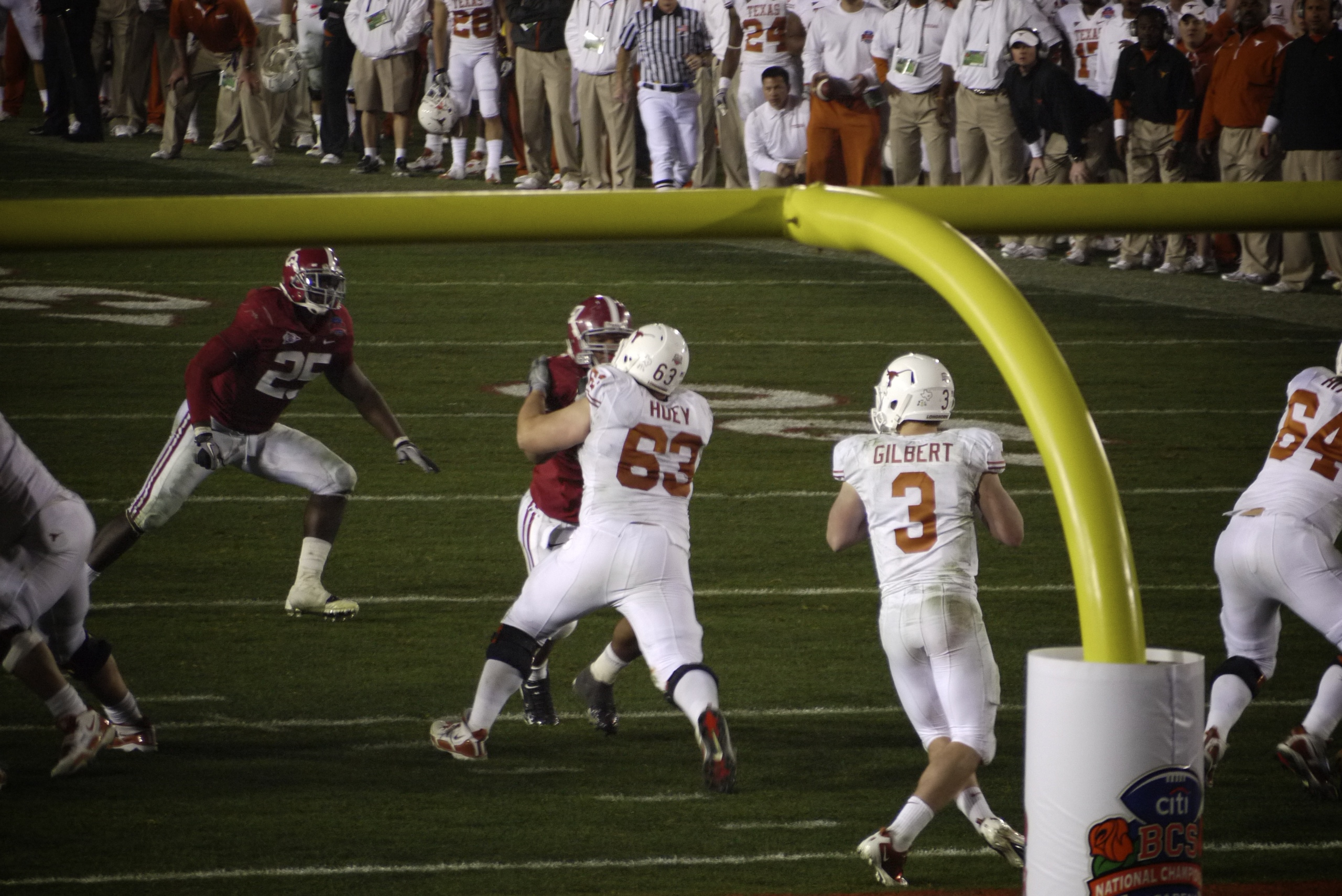 Garrett Gilbert throws against Alabama in the 2010 BCS National Championship Game.